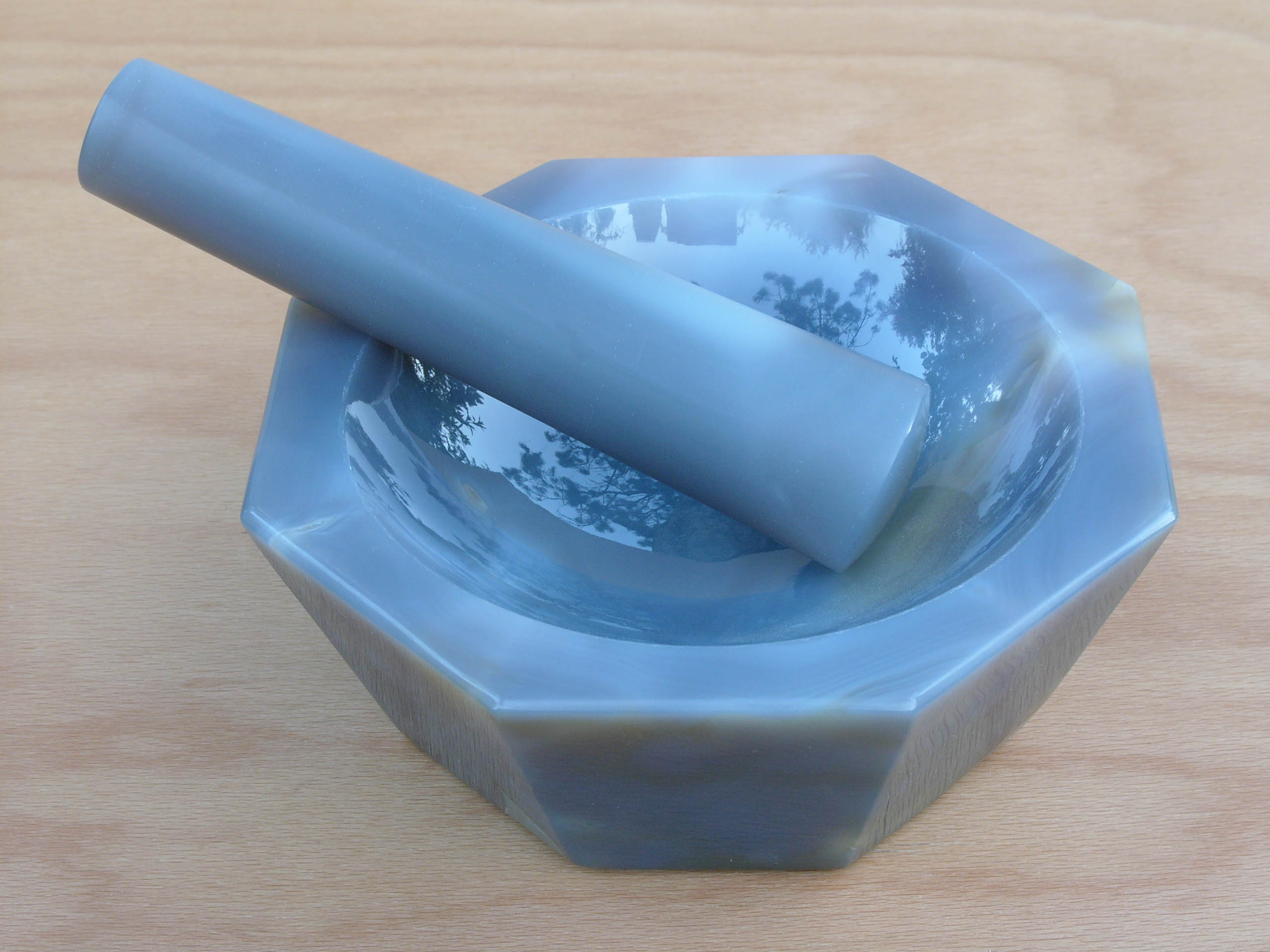 Mortar made out of agate